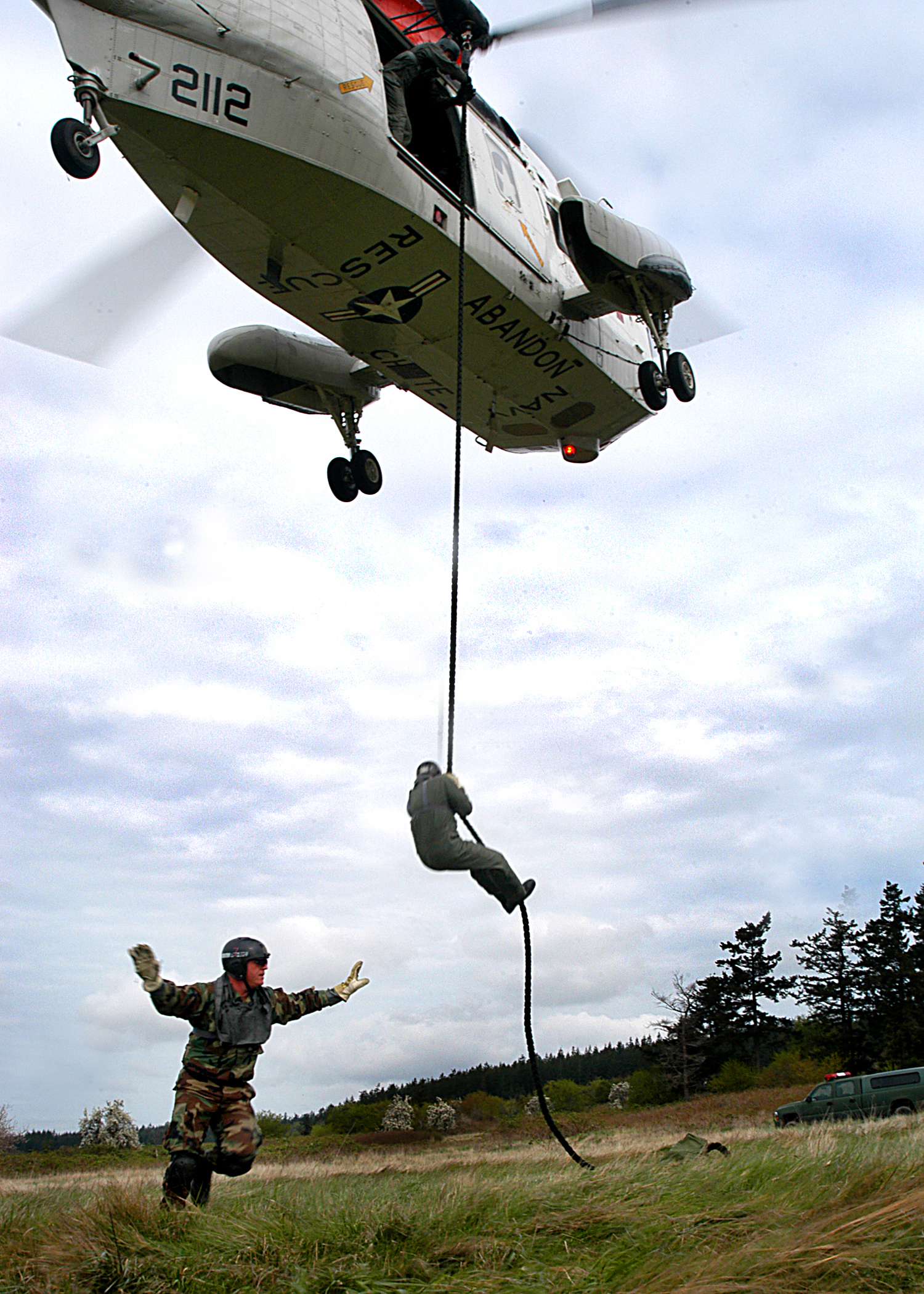 Oak Harbor, Wash. (Apr. 08, 2004) - Chief Sonar Technician Todd Voorhis, of El Paso, Texas, signals to a team member assigned to Explosive Ordnance Disposal Mobile Unit Eleven (EODMU-11) that he is clear of the drop zone after completing his fast rope repel out of a UH-3H Sea King helicopter. EODMU-11 is conducting fast rope and rappelling exercises to help prepare the team for real combat situations. U.S. Navy photo by Photographer's Mate Airman Chris Otsen. (RELEASED)